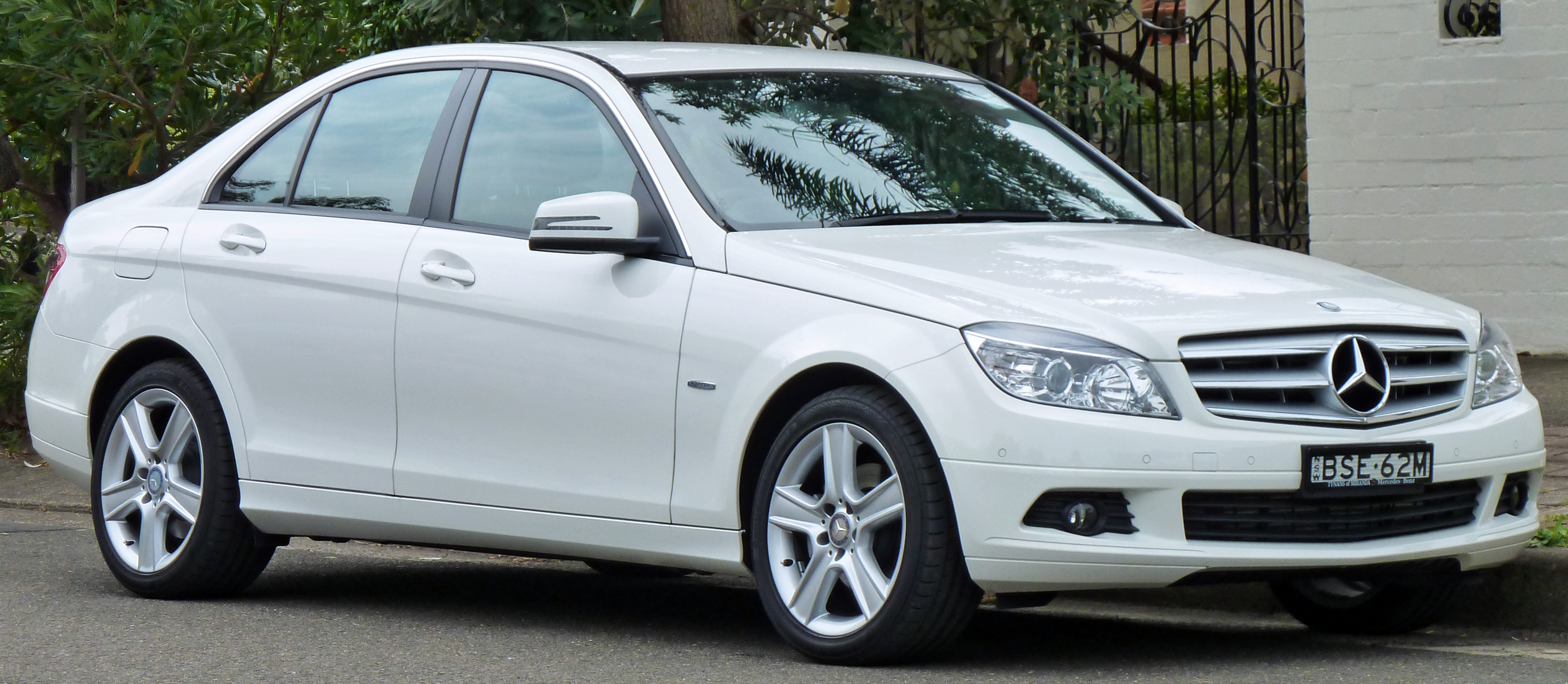 2010 Mercedes-Benz C 200 CGI (W 204) Classic sedan. Photographed in Sandringham, New South Wales, Australia.